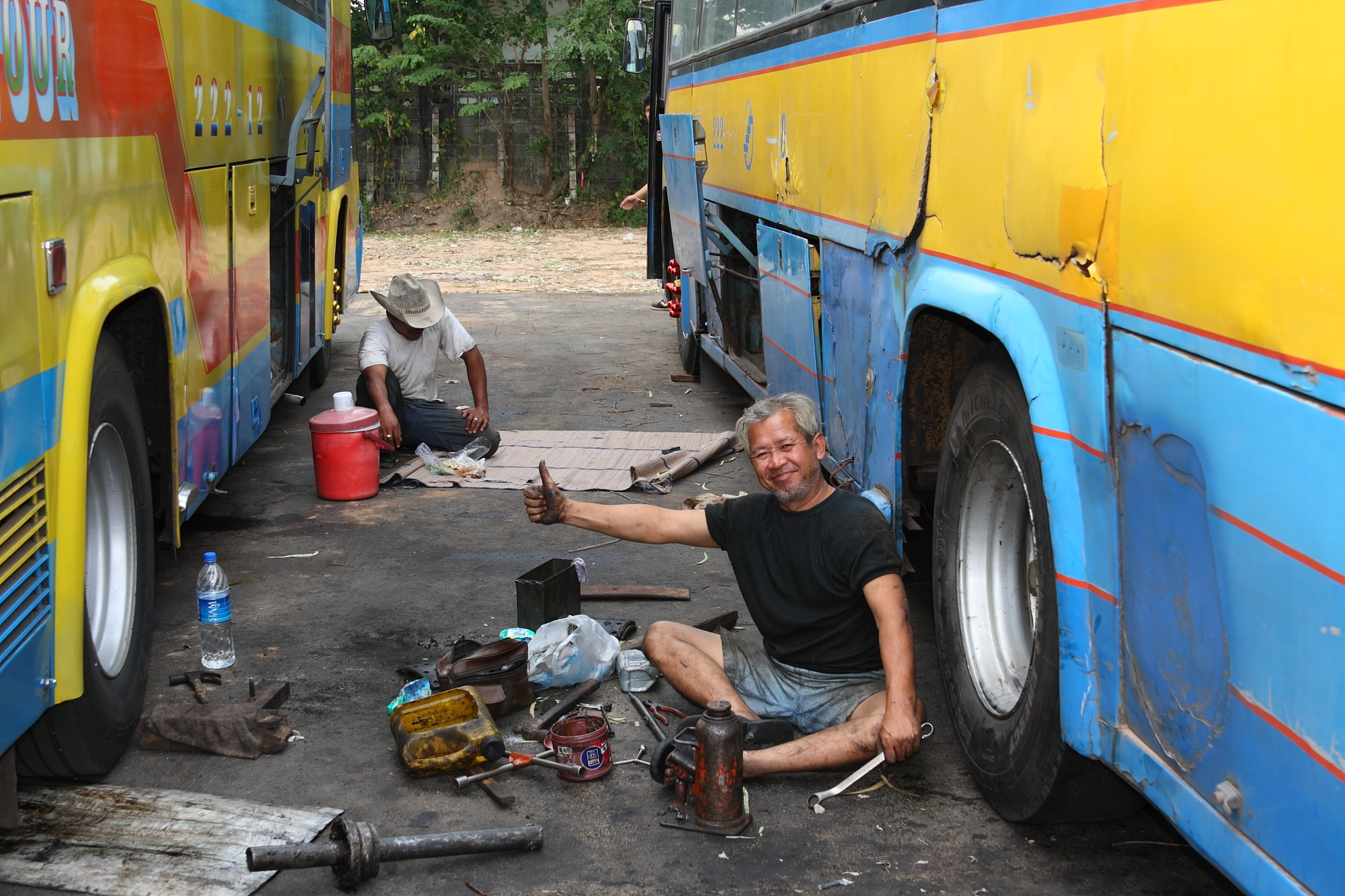 Servicemen at the bus terminal in Ubon Ratchathani, Thailand